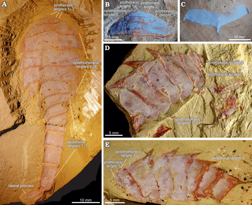 Tergal morphology of fuxianhuiid arthropod Guangweicaris spinatus Luo, Fu, and Hu in Luo et al., 2007 from the lower Cambrian Guan shan Biota, China. A. YKLP 11564a, a nearly complete specimen in dorsal view, showing three prothoracic tergites, five opisthothoracic tergites and seven abdominal tergites. B. YIGS Kgs-1-36 (paratype), prothoracic tergites in dorsal view. C. YIGS Kgs-1-37 (paratype), isolated opisthothoracic tergite in dorsal view. D. YKLP 11140, last two prothoracic and five opisthothoracic tergites in lateral view, appendages are detached from the body. E. YKLP 11162b, last prothoracic, five opisthothoracic and first two abdominal tergites in lateral view.